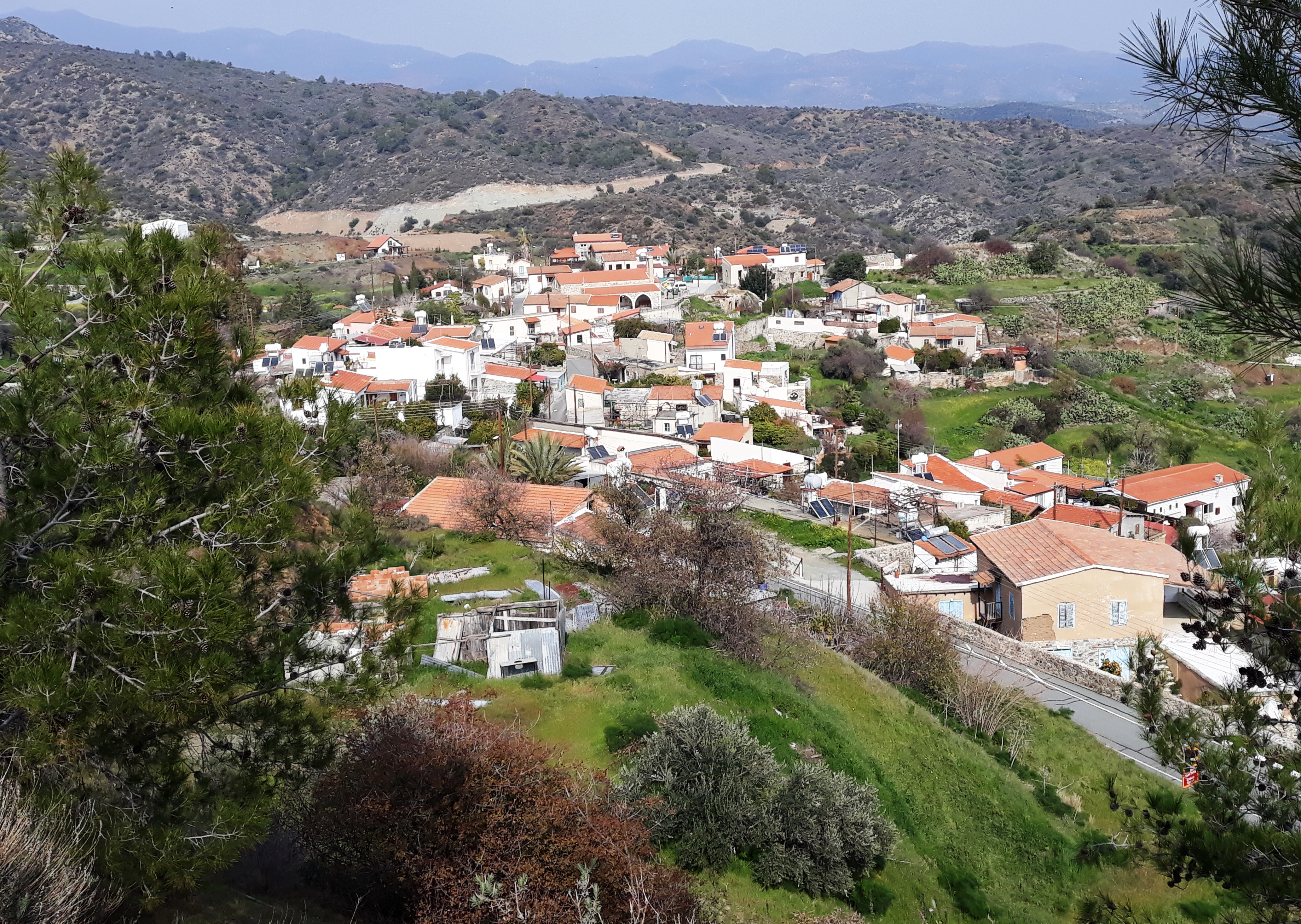 View of Vasa Kellakiou.